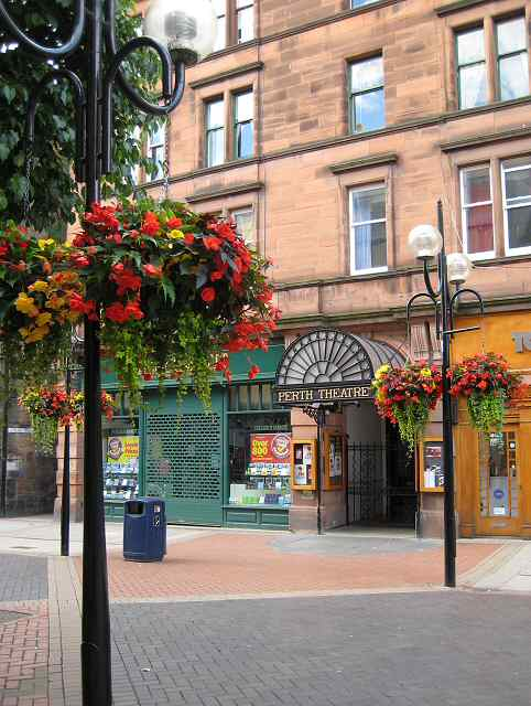 Perth Theatre The entrance to Perth Theatre, in the pedestrianised High Street.